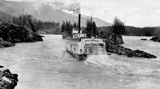 Photographer Unknown Photo taken 1911 Source BC Archives # B-01268 [1]